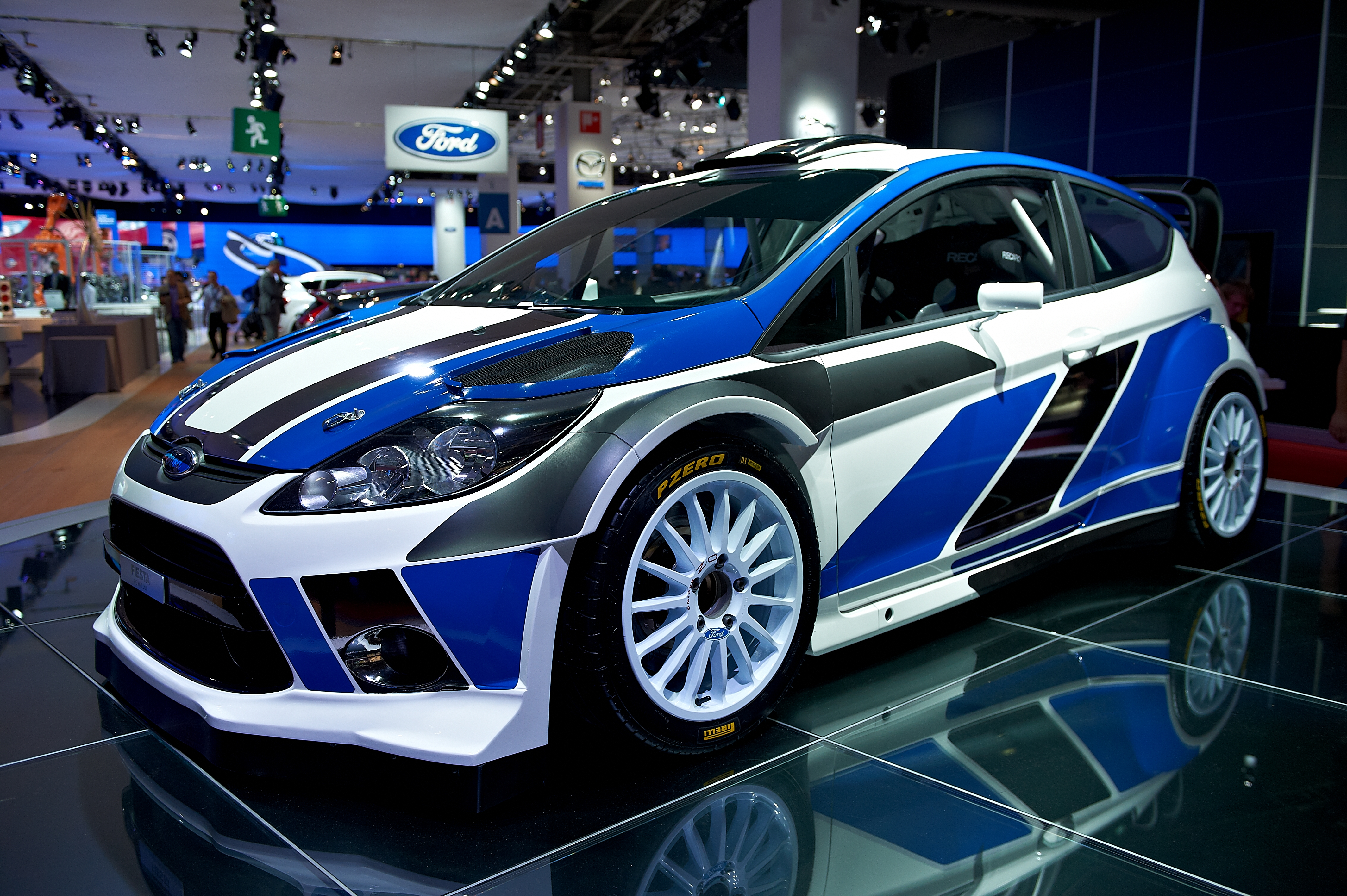 Ford Fiesta RS WRC at Paris Motor Show 2010